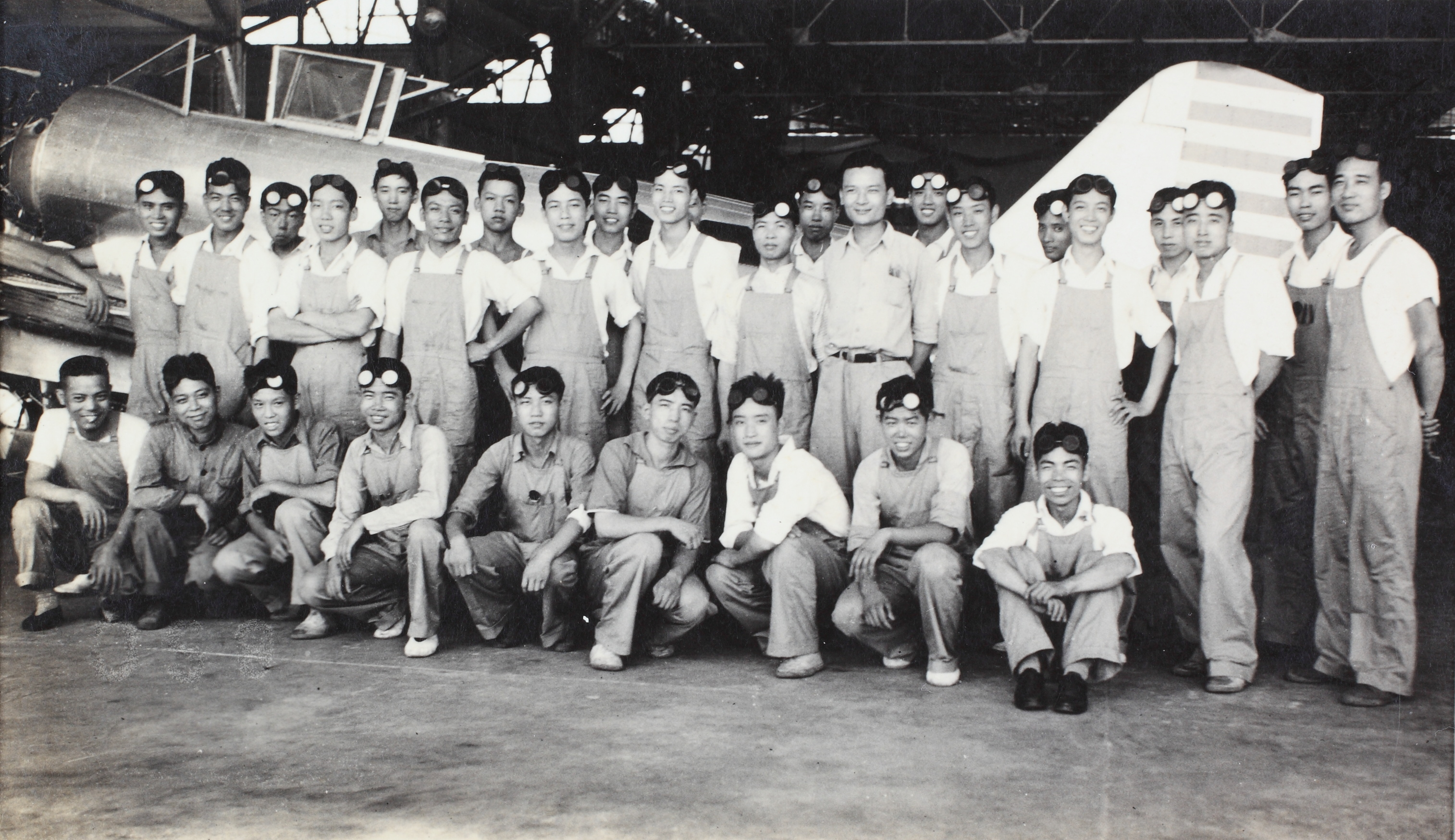 SDASM.CATALOG: Arnold_00073 SDASM.TITLE: The Welding Gang SDASM.DATE: 7/10/1936 SDASM.LOCATION: Shien Chiao China SDASM.ADDITIONAL INFORMATION: ink on back: ""7-10-36"" ""Shien Chiao"" ""Hangchow"" ""The Welding Gang"" ""028"" SDASM.COLLECTION: George Arnold Collection SDASM.MEDIA: Glossy Photo SDASM.DIGITIZED: Yes PUBLIC COMMONS.SOURCE INSTITUTION: San Diego Air and Space Museum Archive